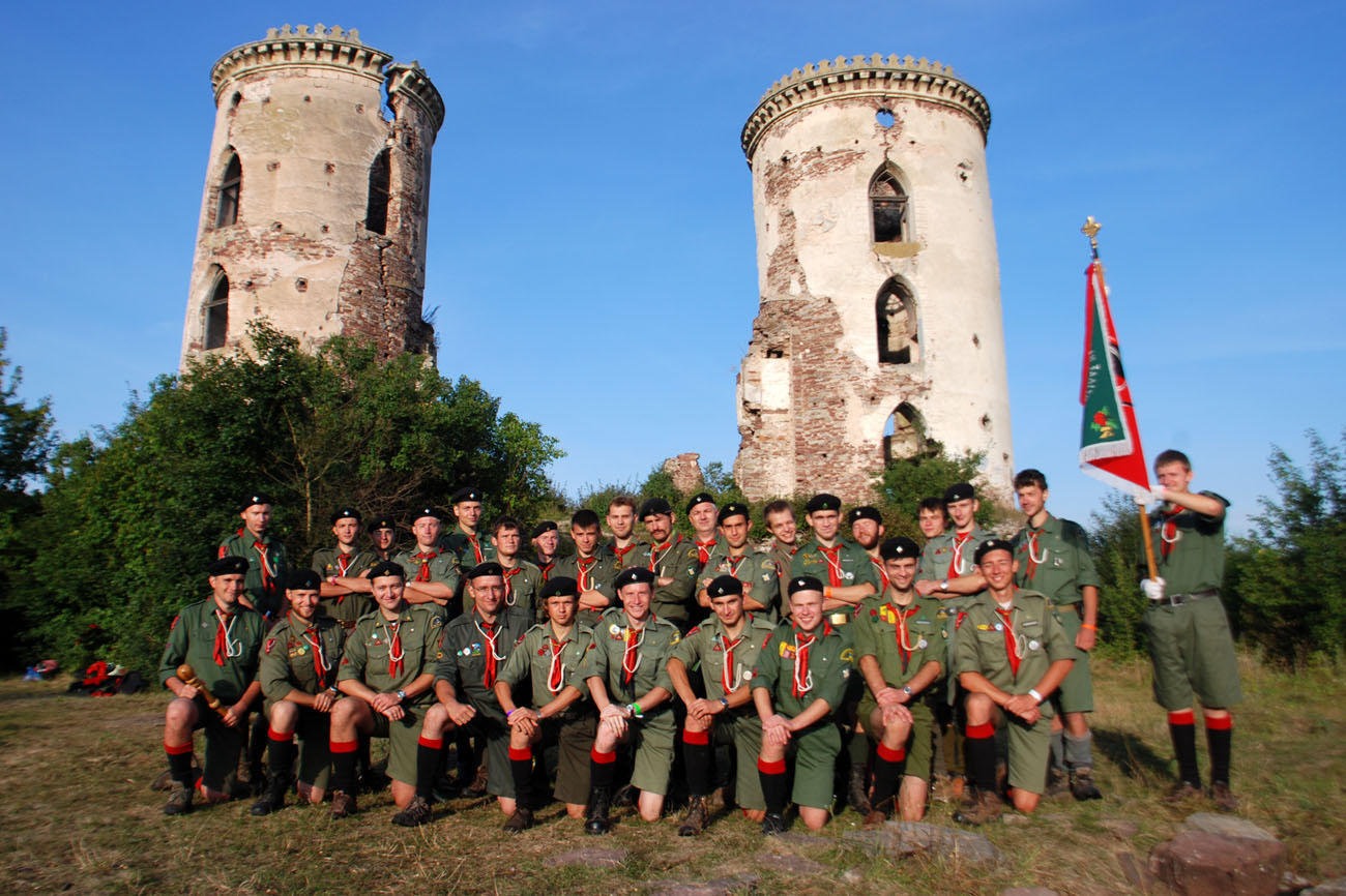 Orden in year 2009 on the Jamboree in Nyrkiw, Ukraine